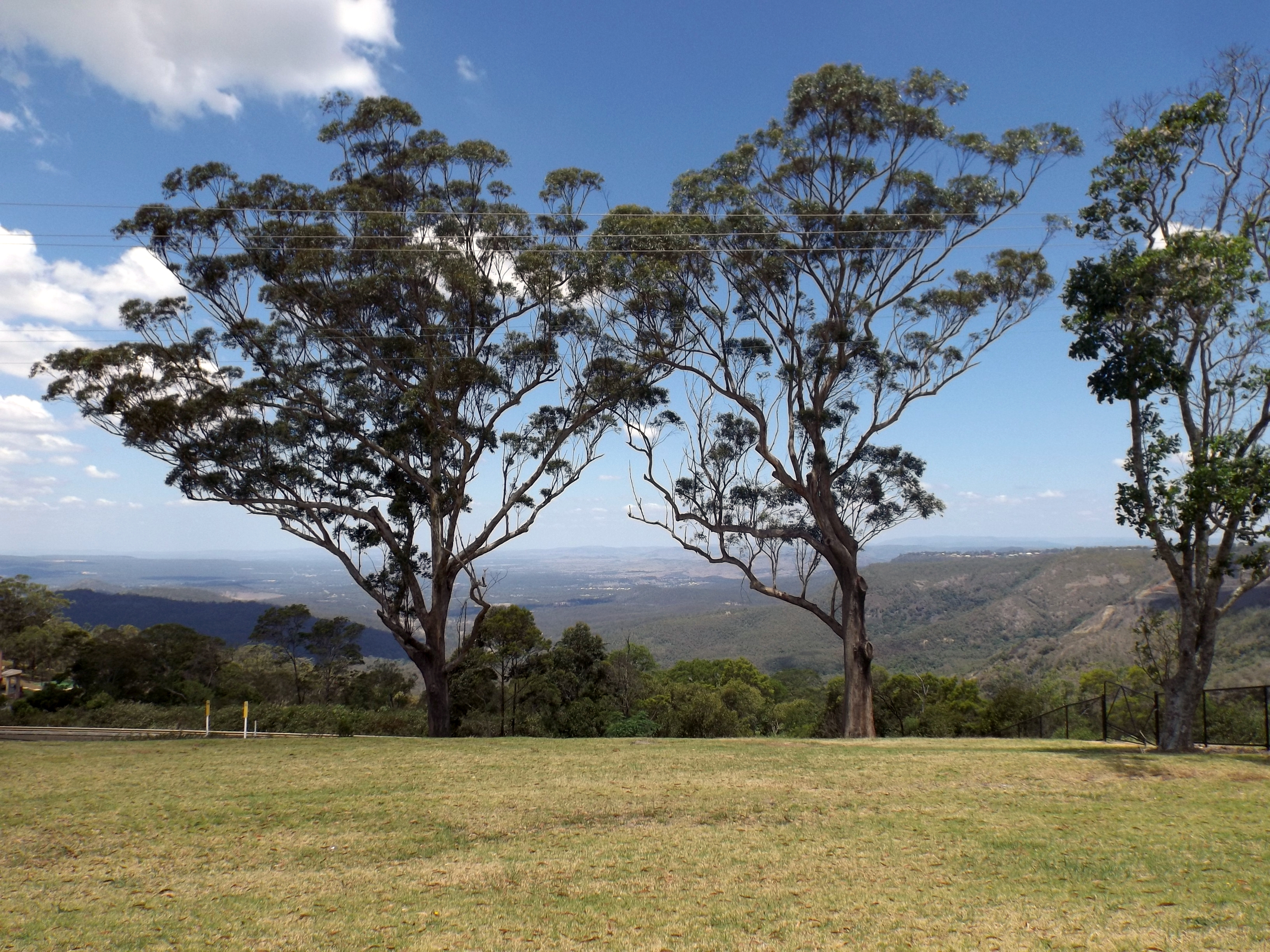 Photo of the view southeastwards from Mount Kynoch, Toowoomba Region, Queensland, Australia.